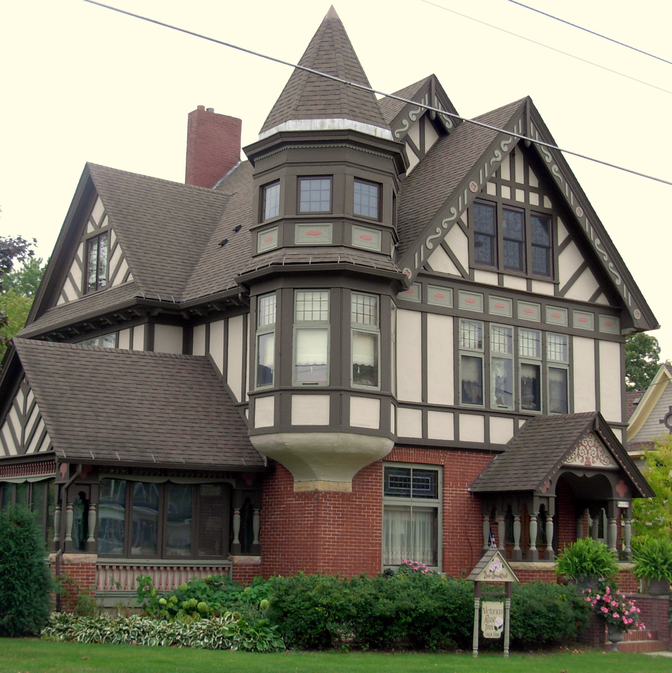 The historic H. A. Paine House at 609 West Fountain Street in Albert Lea, Minnesota, United States